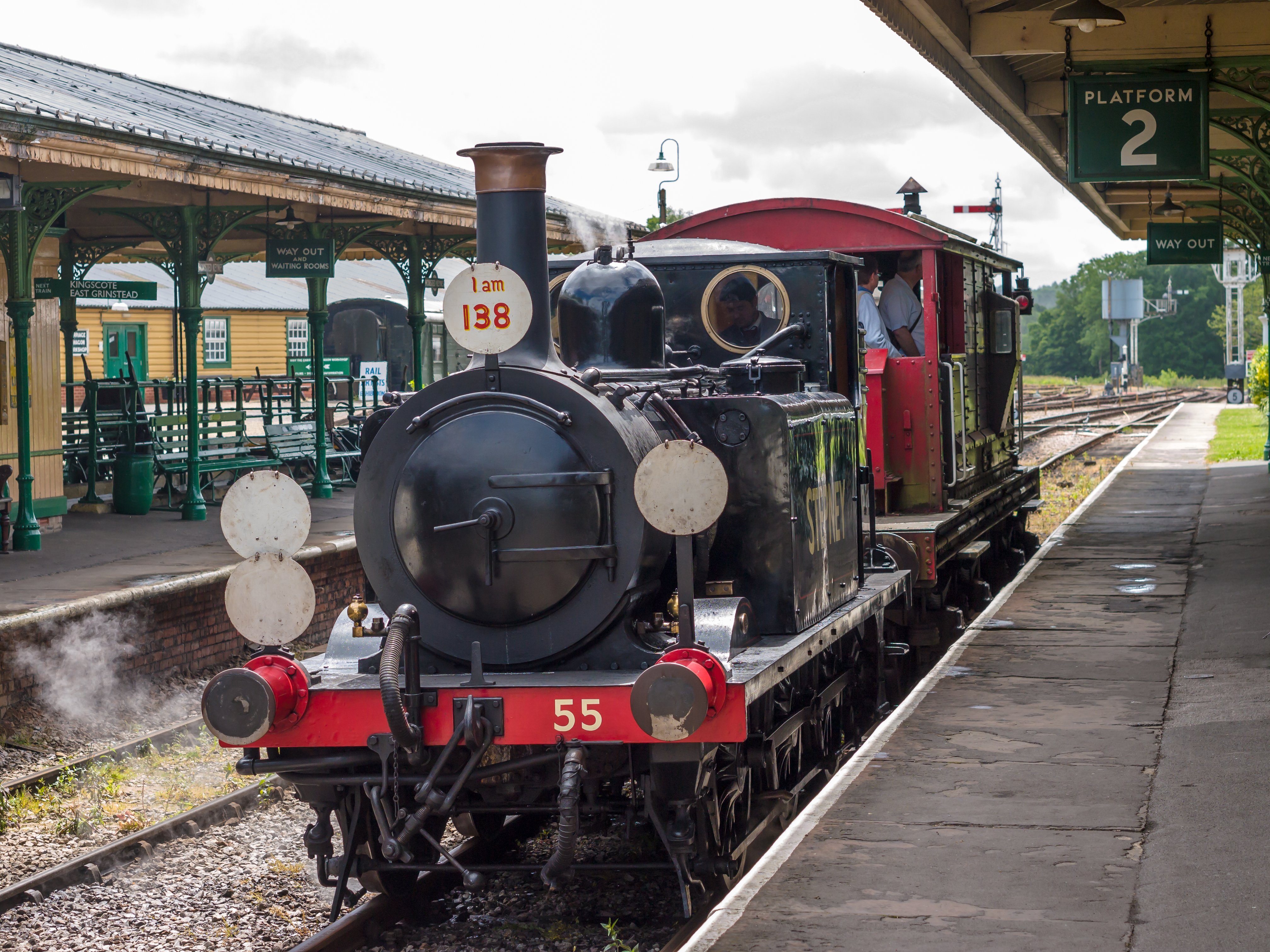 Bluebell Railway (during the 2013 Edwardian week-end)